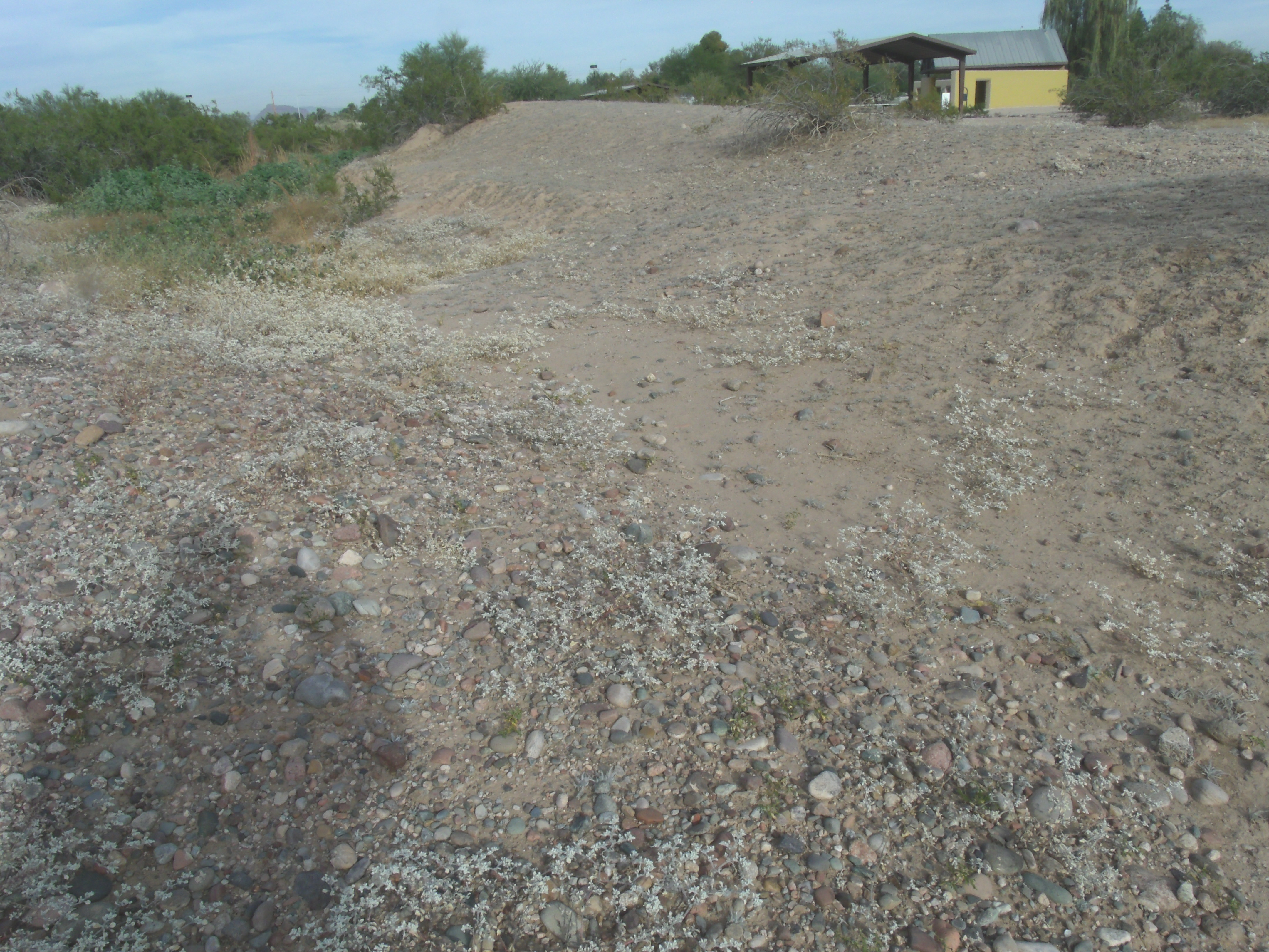 The historic Park of the Canals located in 1710 N. Horne Av. In Mesa, Az. This is a prehistoric canal built by the Hohokams. Listed in the National Register of Historic Places on May 30, 1975, reference number 75000350.